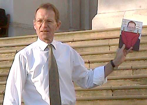 Stuckist demonstration against the Turner Prize, Tate Britain, 4 December 2006. Sir Nicholas Serota faces Stuckist co-founder, Charles Thomson, and says, "Can't you make another image?", holding up the Stuckist demo leaflet, just given to him by Thomson, which has on one side Thomson's picture, "Sir Nicholas Serota Makes an Acquisitions Decision".